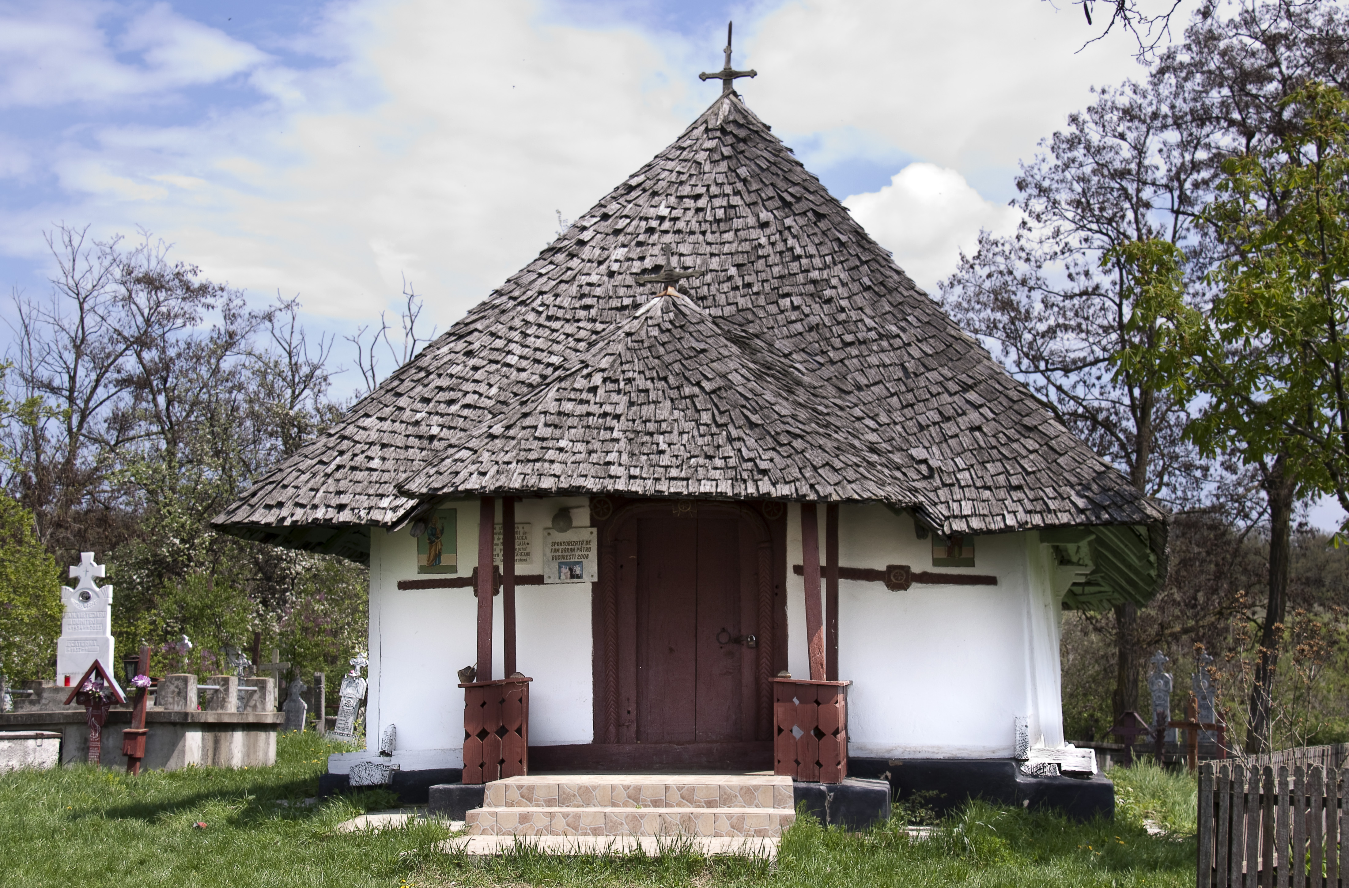 Balota de Sus, Dolj, Romania: the wooden church, West side.